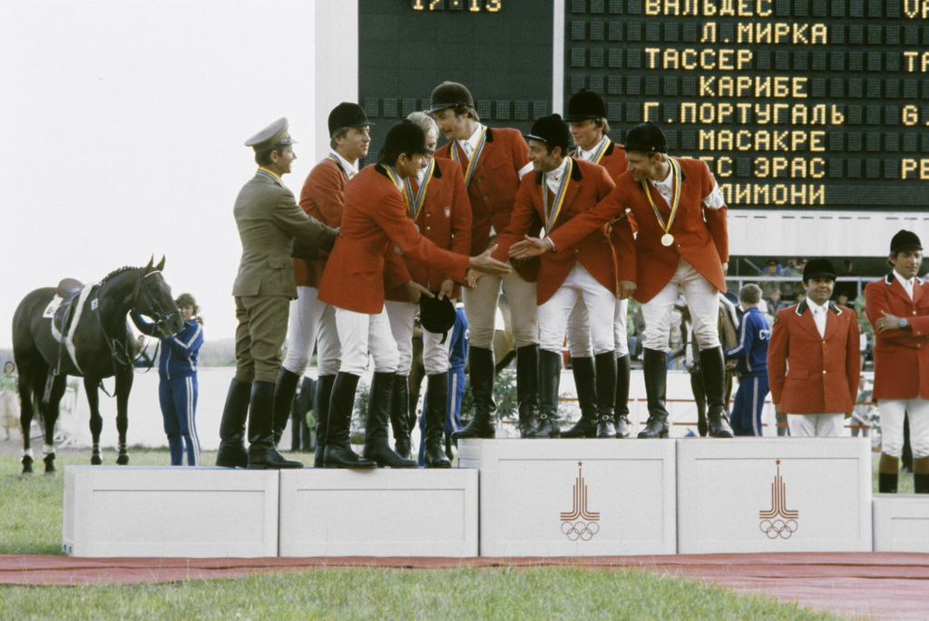 “Medalists of the 22nd Olympic Games”. Medalists of the 22nd Olympic Games in team horse riding: the USSR team (gold) and the Polish team (silver).